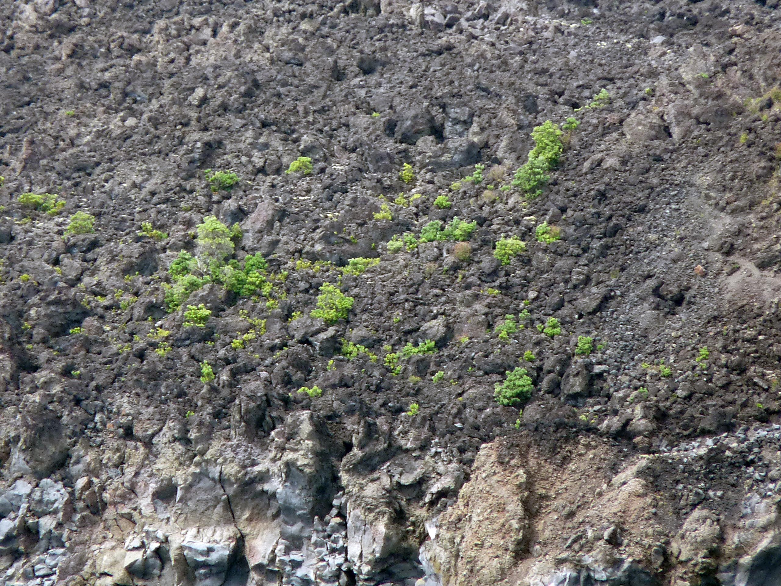 New vegetation on the 1961 lava